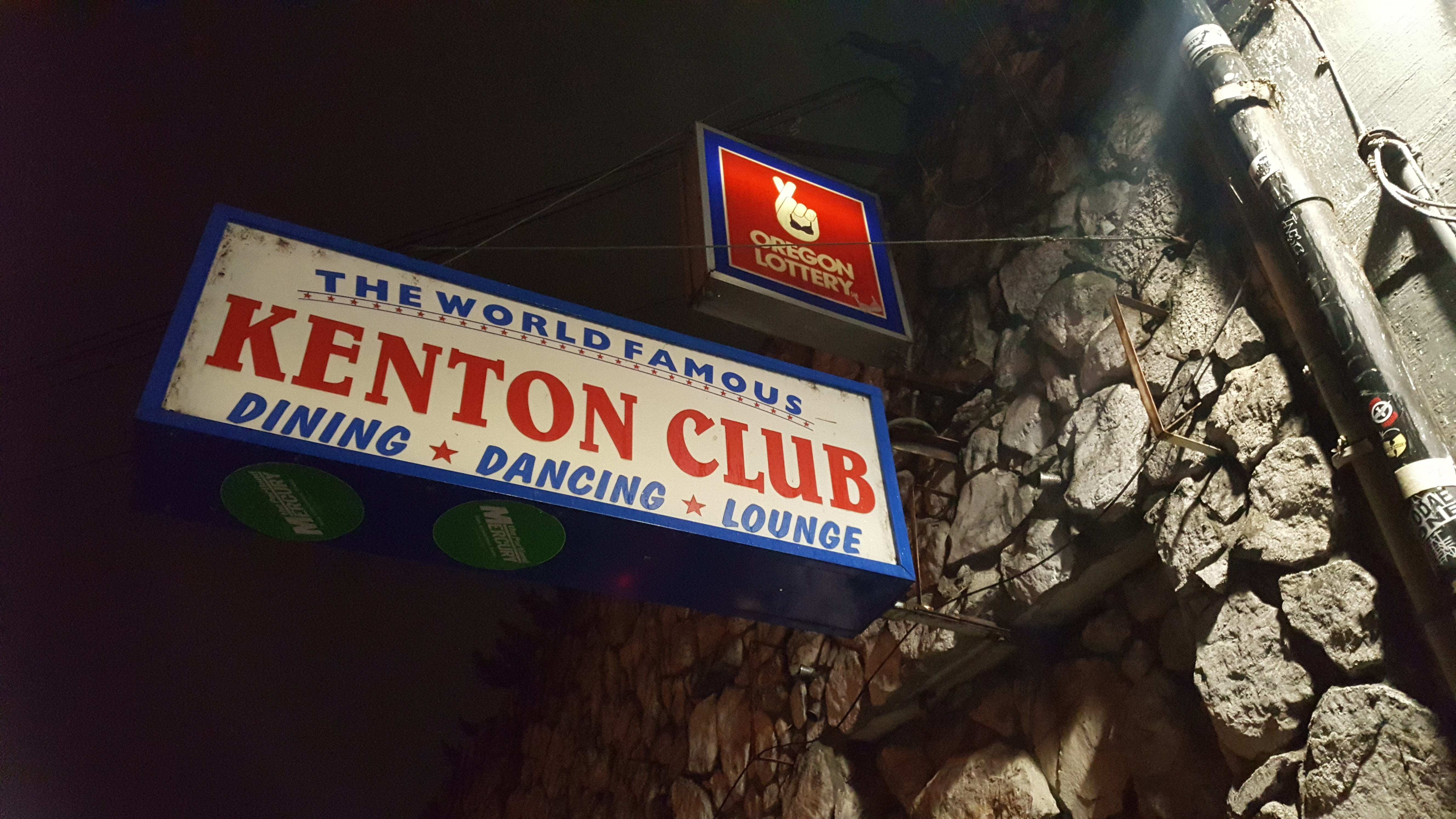 World Famous Kenton Club, Portland, Oregon, 2018